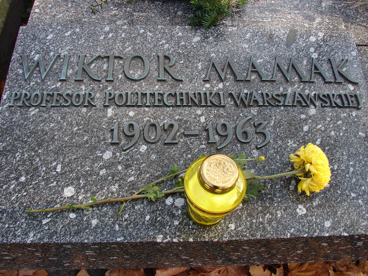 Nagrobek Wiktora Józefa Mamaka